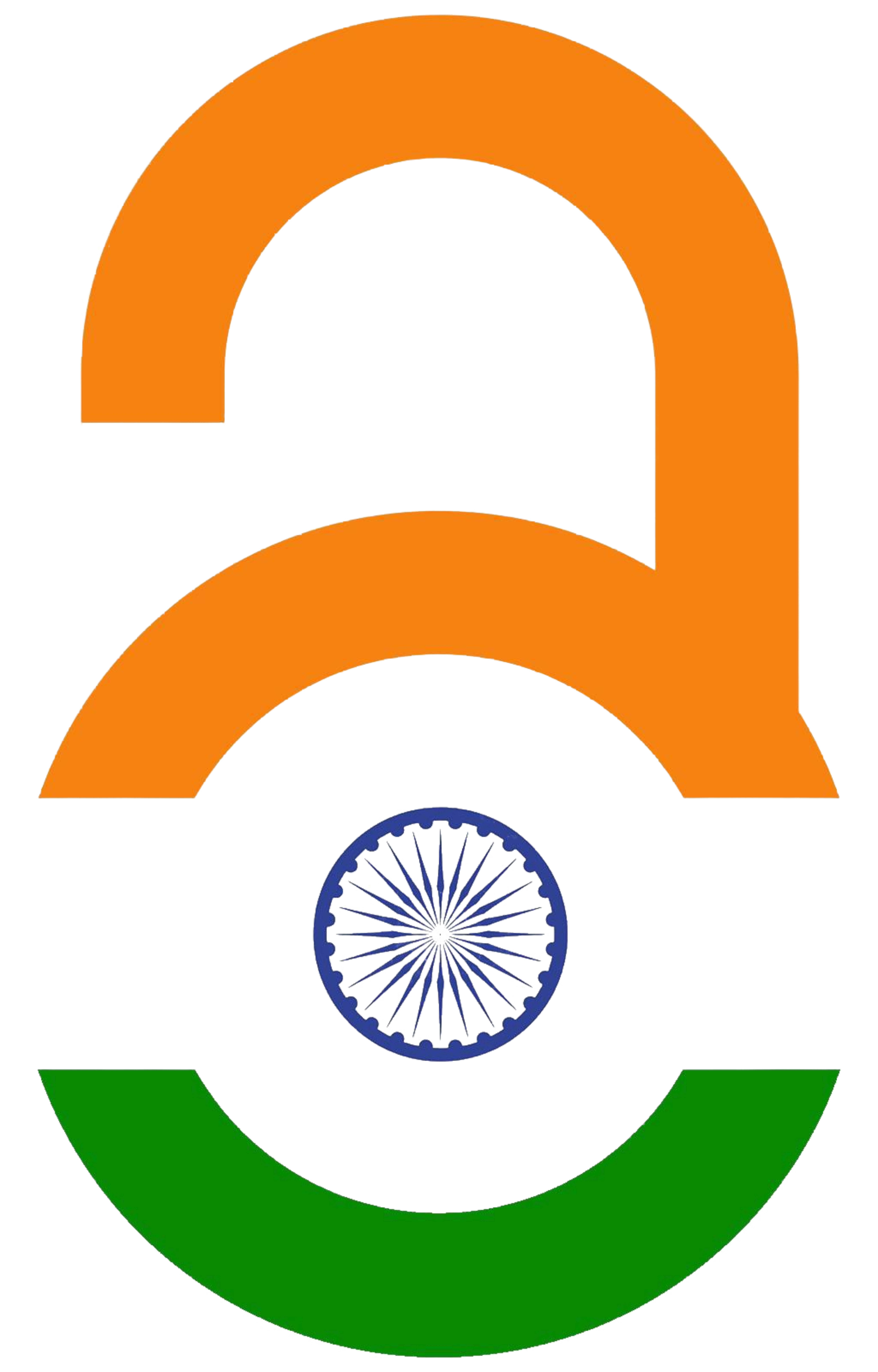 The logo of the Open Access India